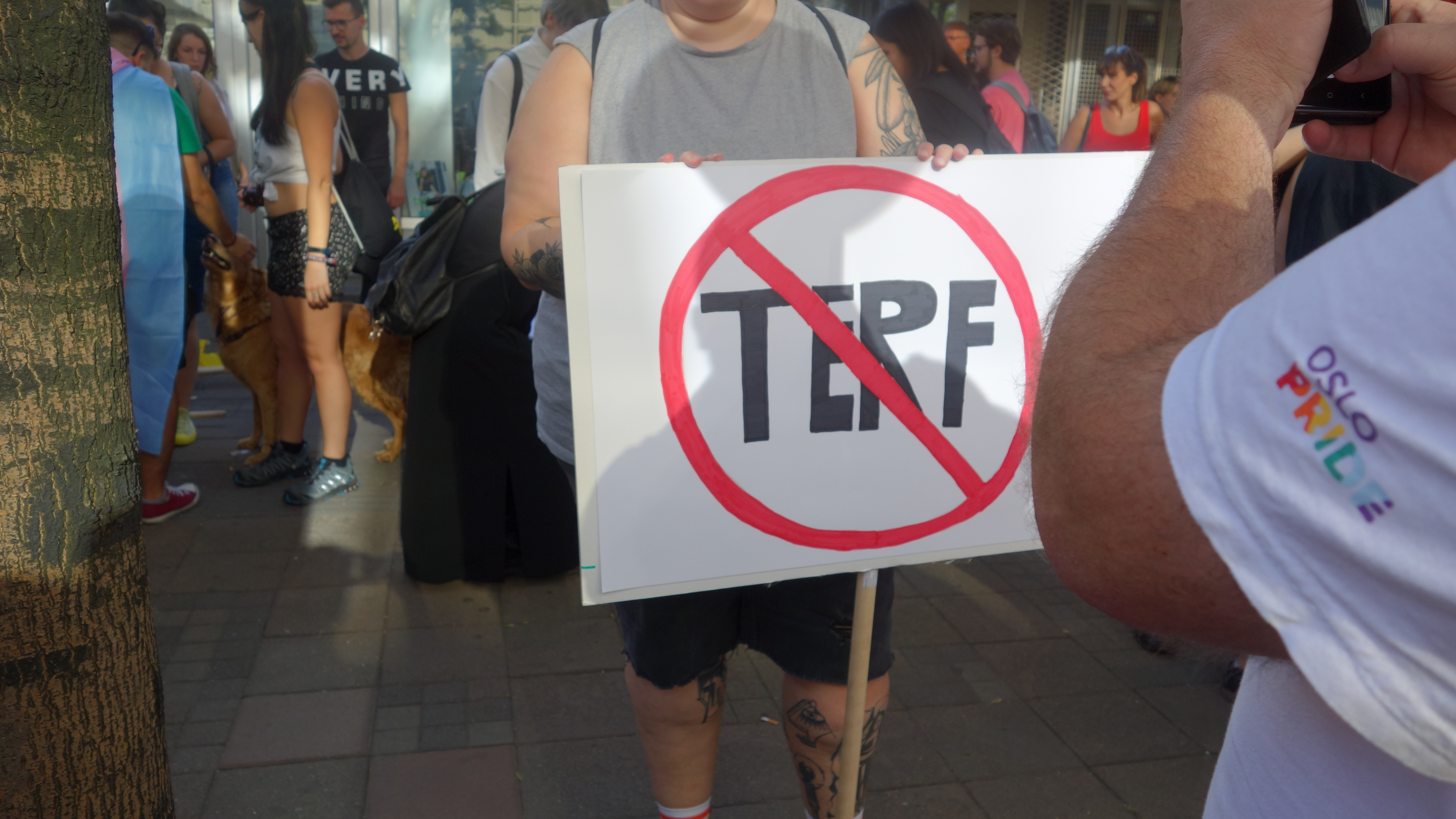 Belgrade’s eighth Pride Parade took place on September 15th, 2019. Thousands take part in Belgrade Pride marching under the slogan ‘’I’m not giving up’’. Српски (ћирилица): Осма београдска парада поноса на којој је учествовало више хиљада људи одржана је 15. септембра под слоганом "Не одричем се".